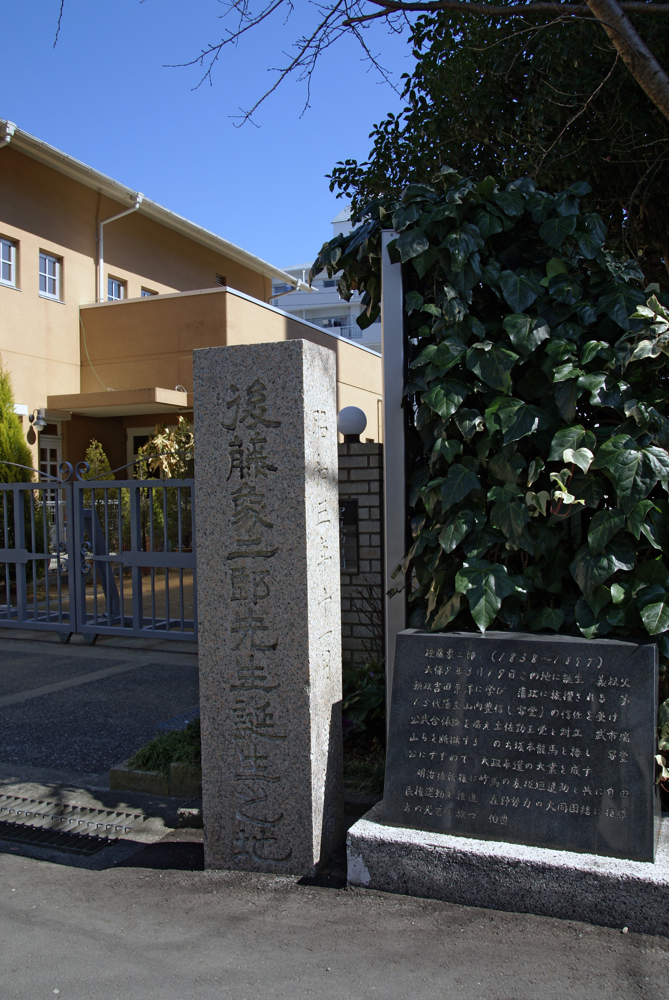 Gotō Shōjirō's birthplace in Kōchi, Kōchi prefecture, Japan